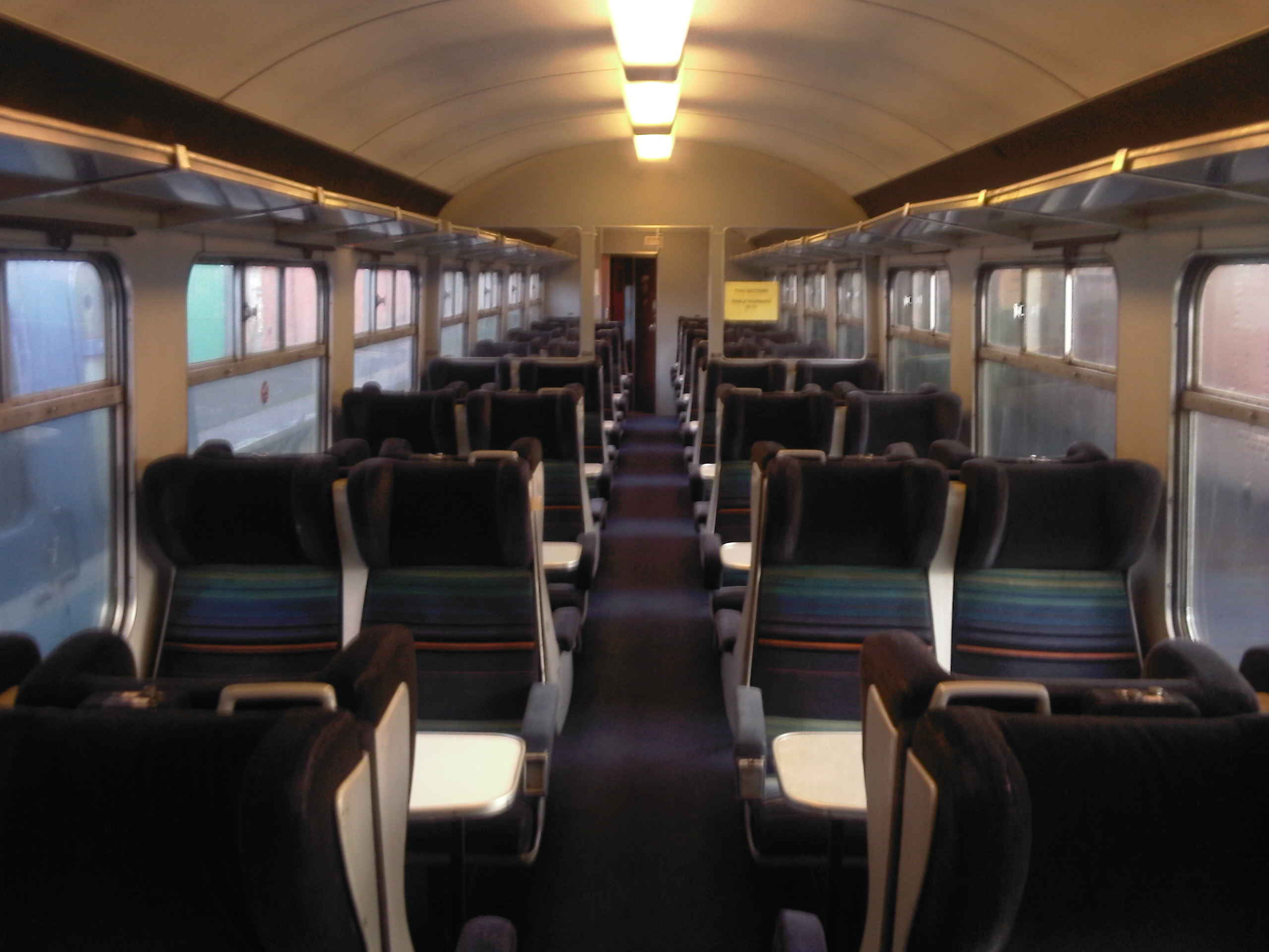 Interior of Mk2 TSO on Mid-Norfolk Railway